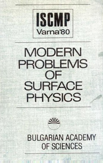 Modern Problems of Surface Physics